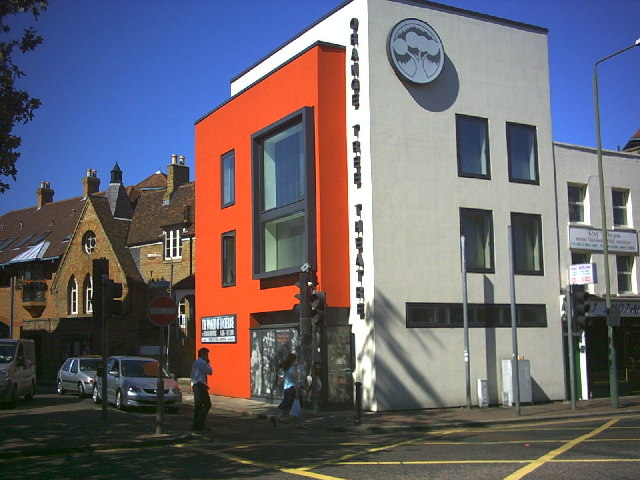 Orange Tree Theatre, Kew Road, Richmond. Named after (and next door to) the famous Orange Tree pub.